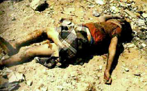 Bahr El-Baqar Massacre victims, By Israeli Air Force in 1970